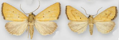 Marimatha piscimala male (right) female (left)